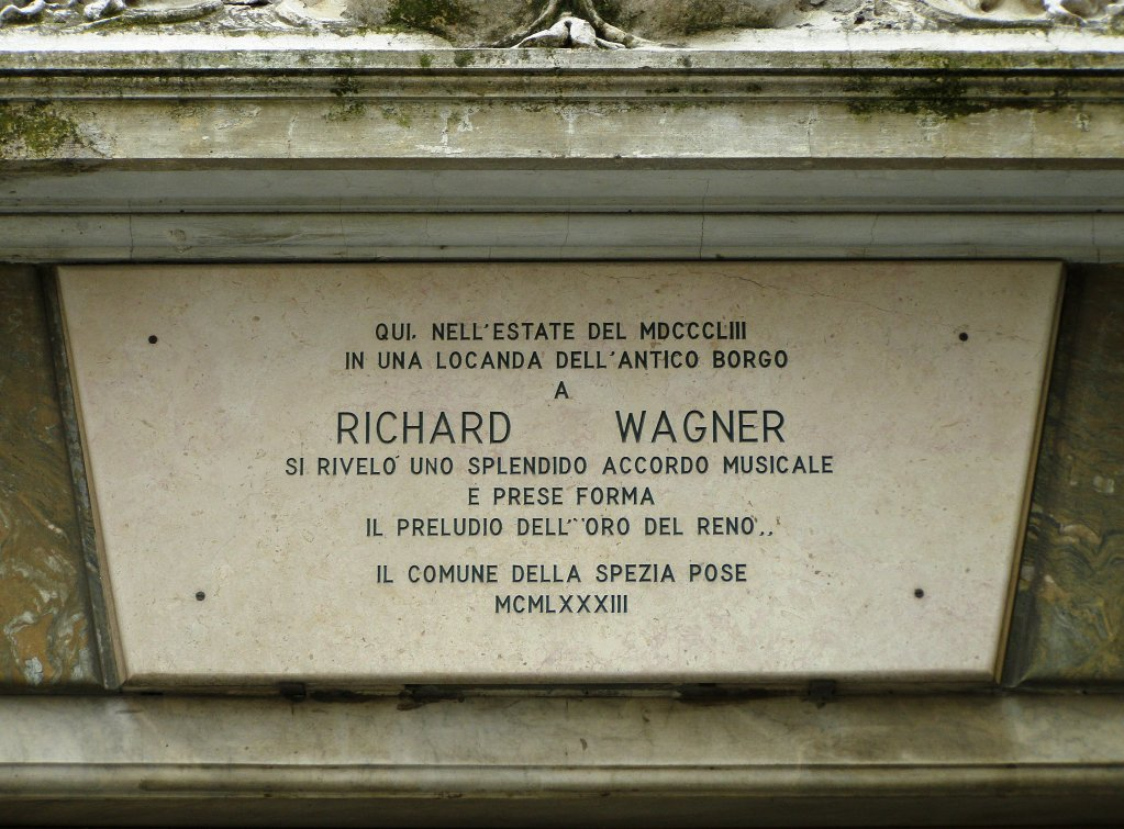 Richard Wagner in La Spezia.